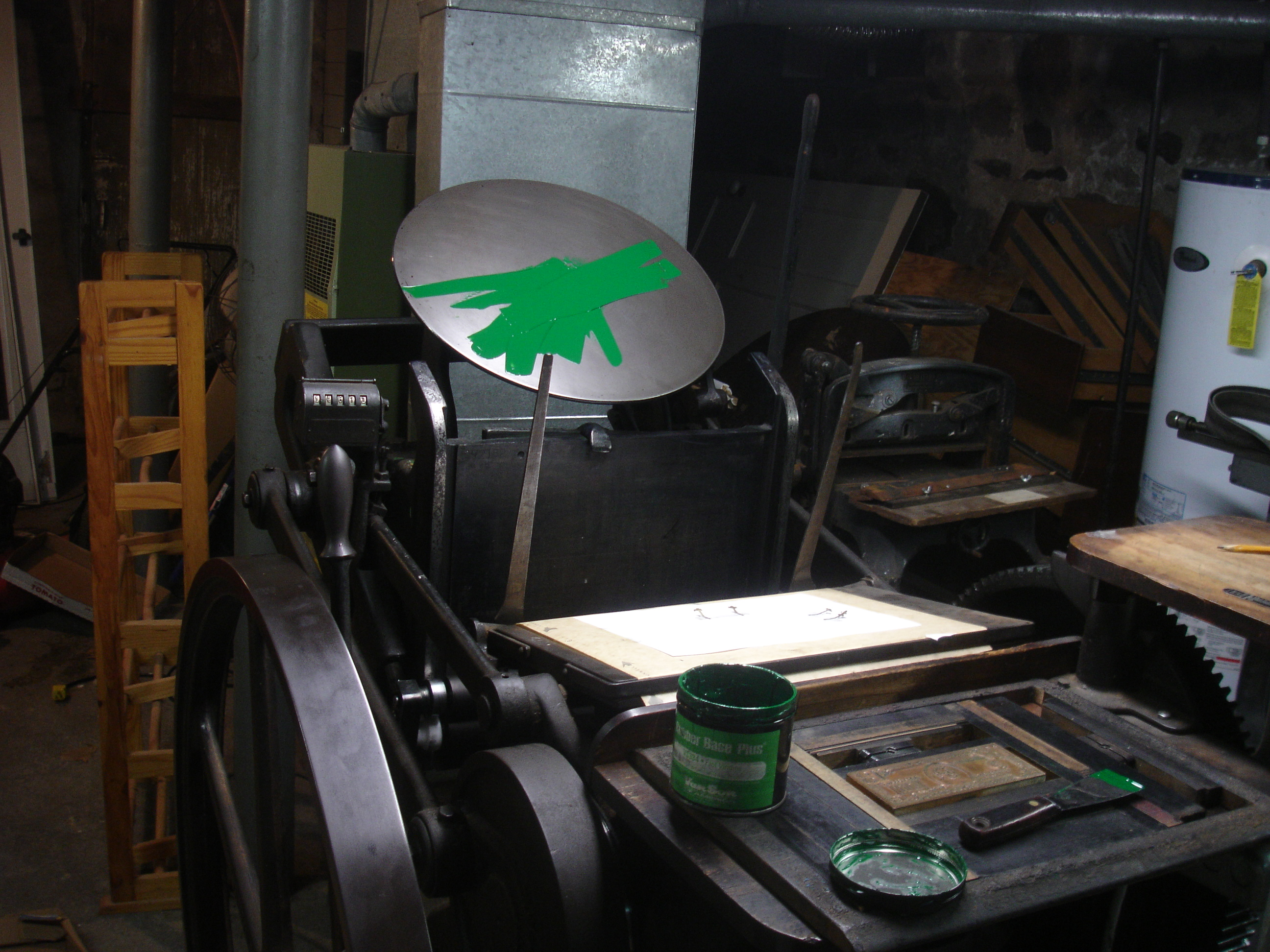 This is a Chandler and Price 10X15 press being inked up for a job.